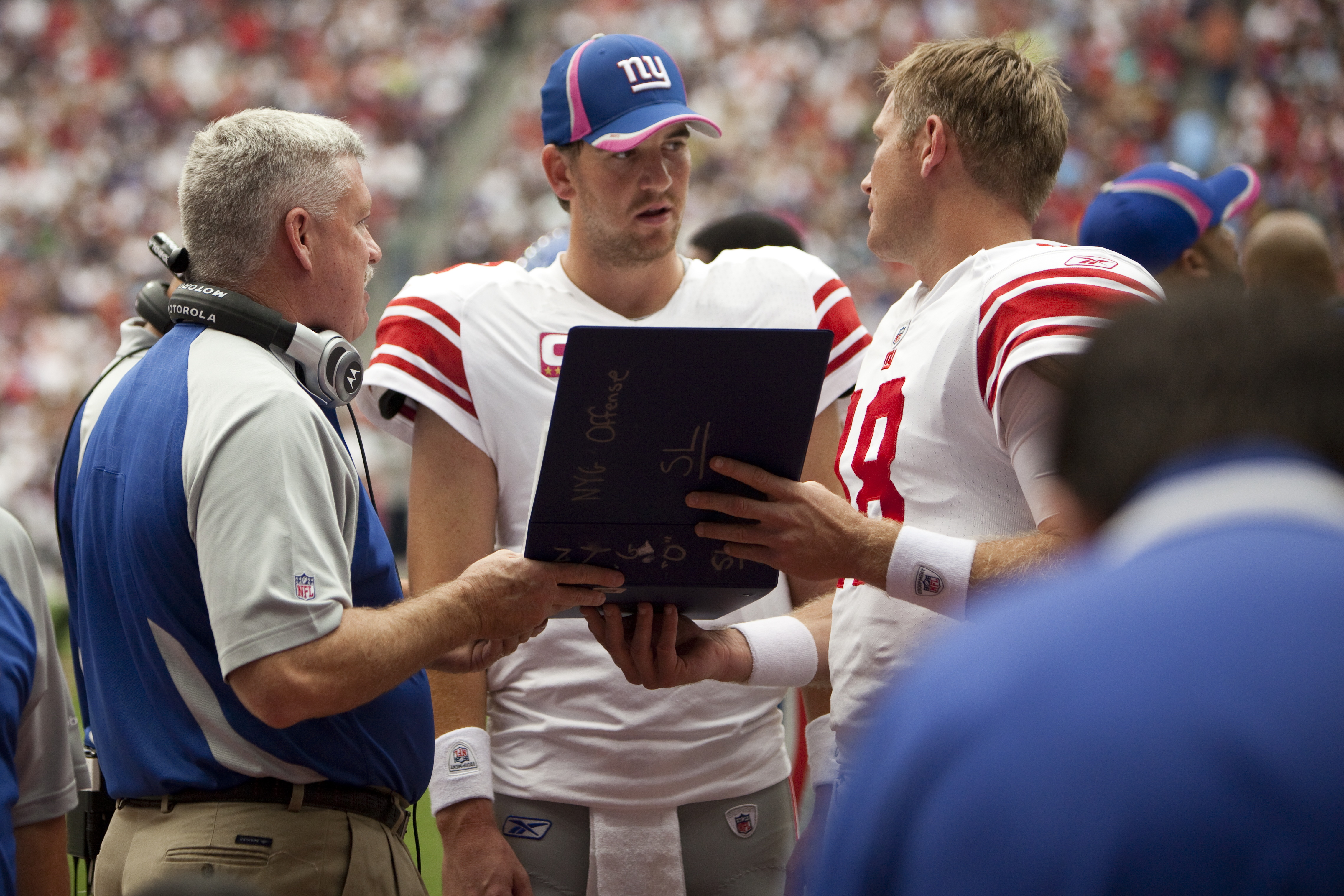 Eli Manning reviews notes during an NFL game, with offensive coordinator Kevin Gilbride (left) and backup quarterback Sage Rosenfels. Houston Texans Vs. New York Giants. Reliant Stadium. Houston, Tx. Oct. 10, 2010